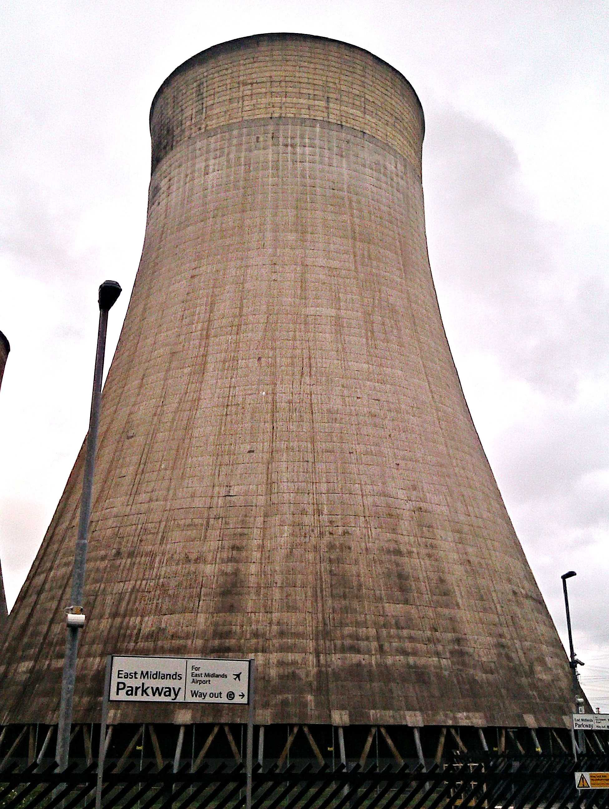 Ratcliffe On Soar power station